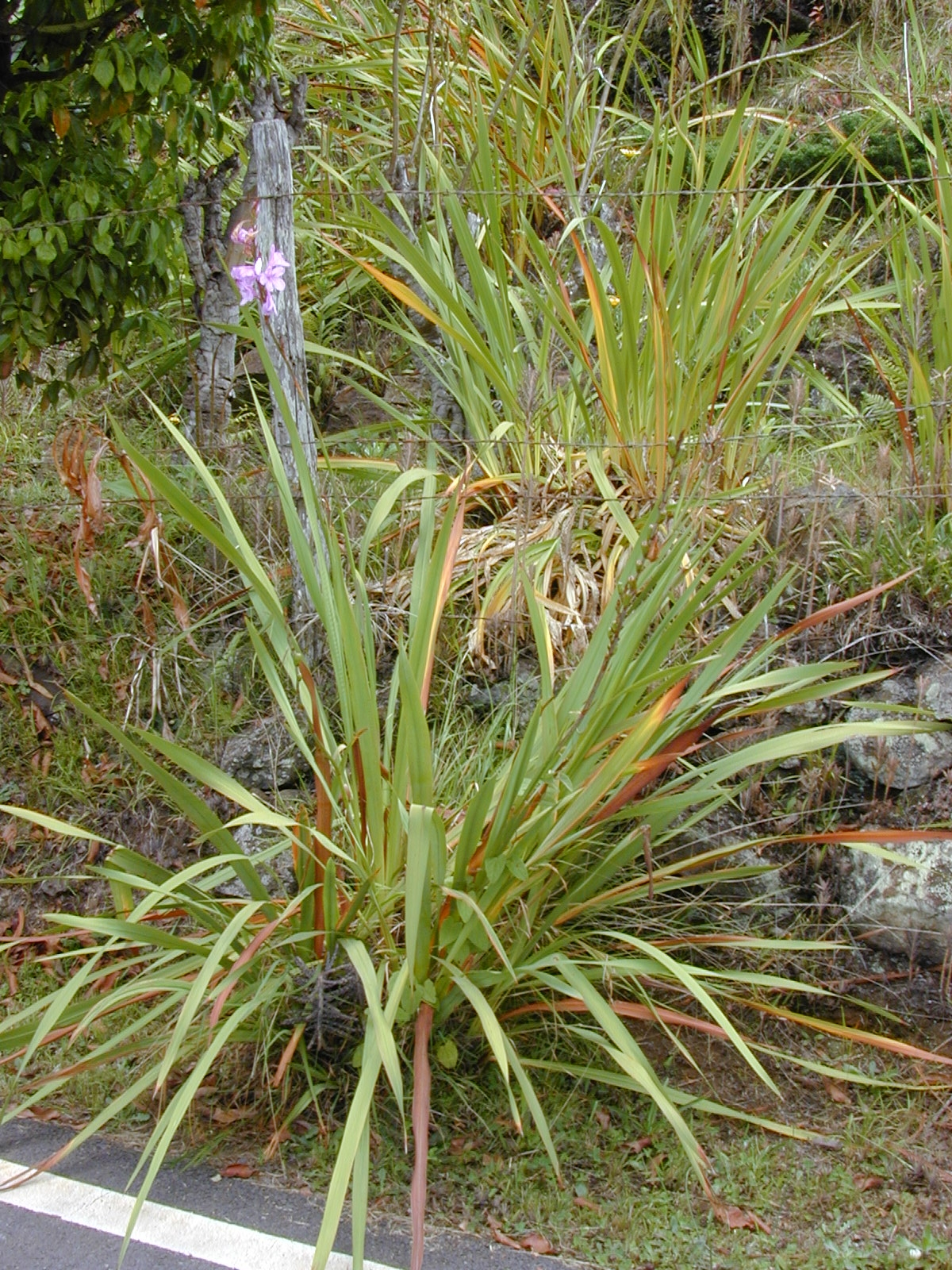 Watsonia borbonica (habit). Location: Maui, Kula